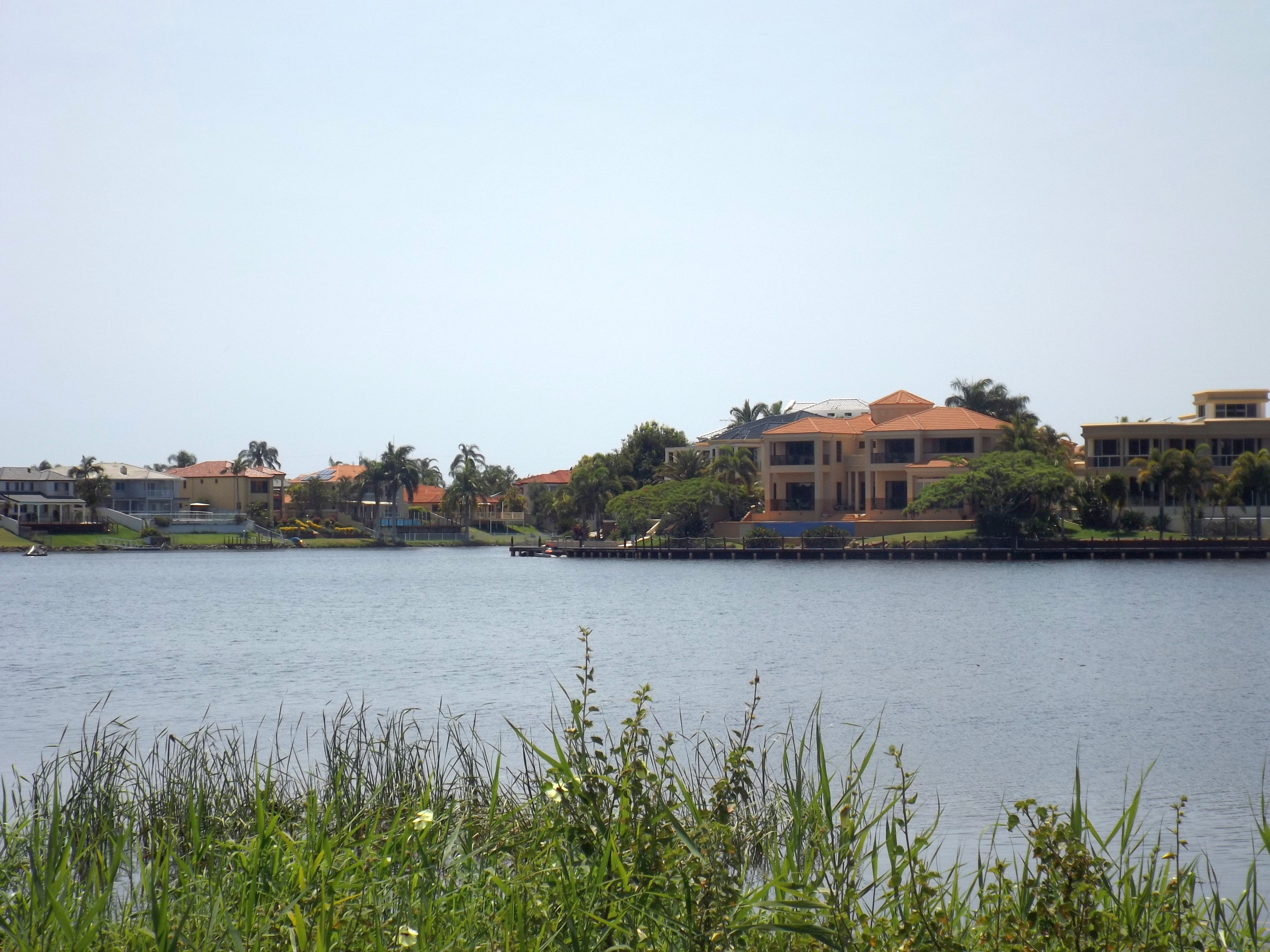 Photo of canal and houses in Clear Island Waters, Gold Coast City, Queensland, Australia.